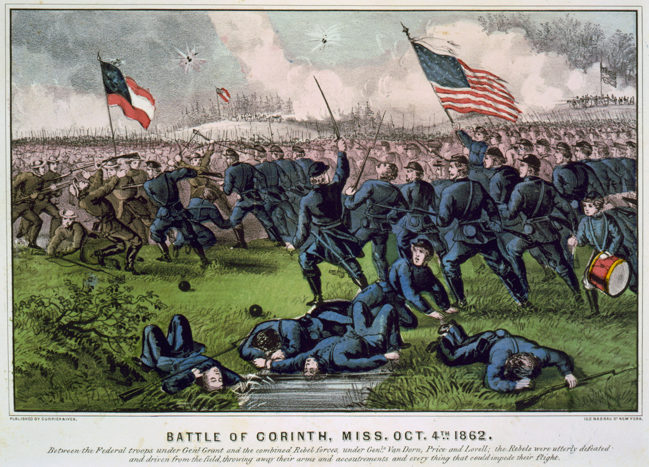 Rendition of the Second Battle of Corinth, Mississippi, second day (October 4, 1862), during the American Civil War. Hand-colored lithograph by Currier and Ives, 1862. Minor cropping and color correction by Hal Jespersen. Source: Library of Congress